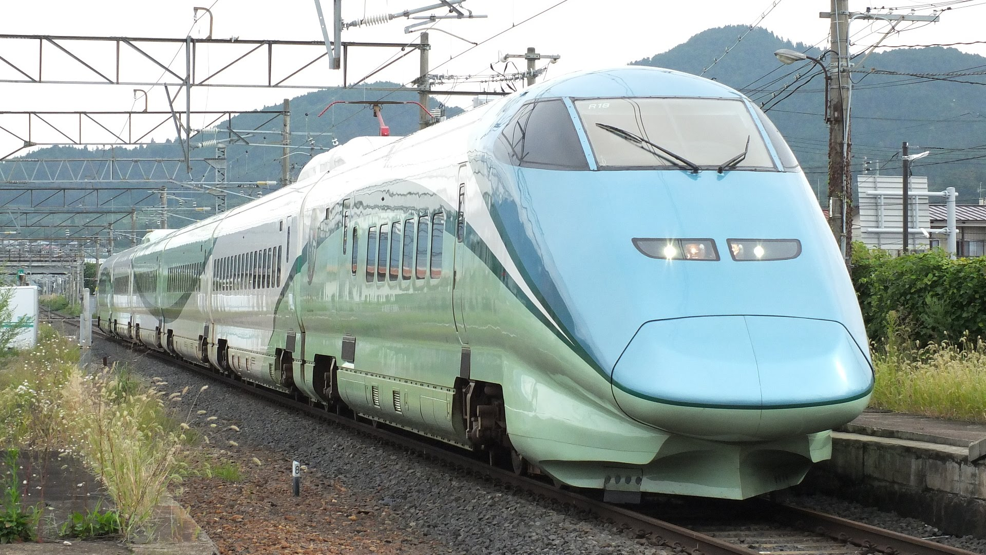 E3-700 series Toreiyu shinkansen set R18 approaching Akayu Station on an empty stock working from Yamagata to Fukushima on the Yamagata Shinkansen line